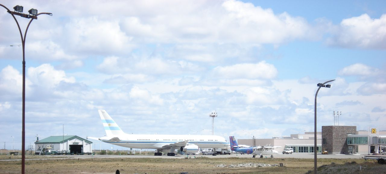 Sight of a Twin Otter and the Argentinian presidential aeroplane Tango 01 in the Rio Gallegos airport, Argentina.